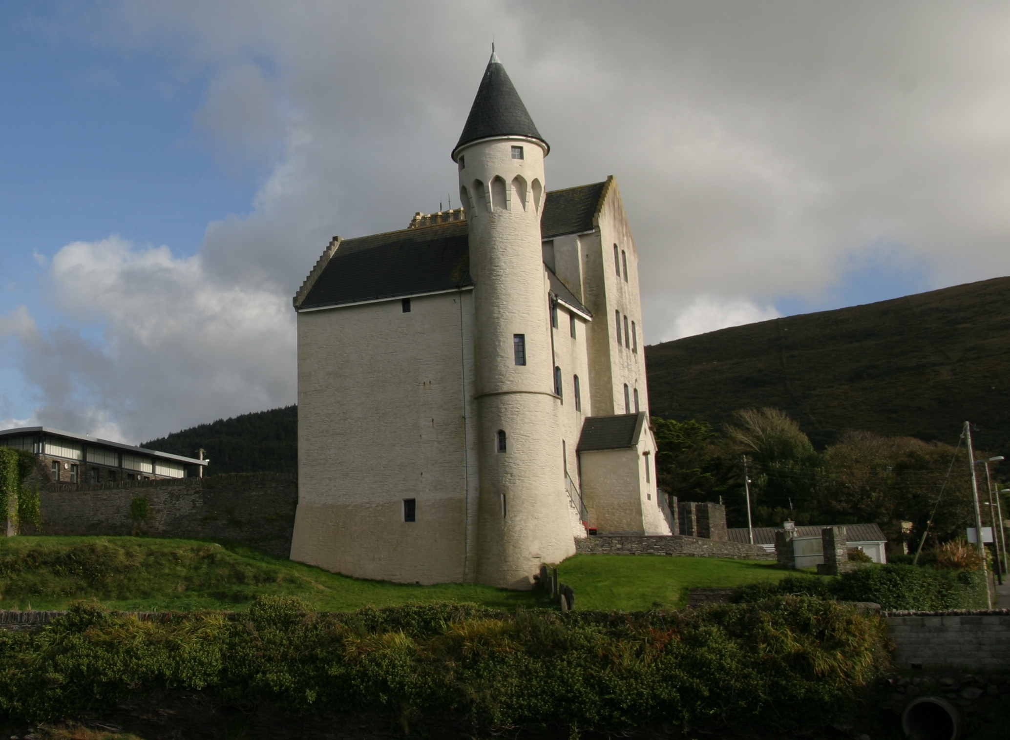 The Old Barracks Heritage Centre in Caherciveen, an out of commission Royal Irish Constabulary barracks.